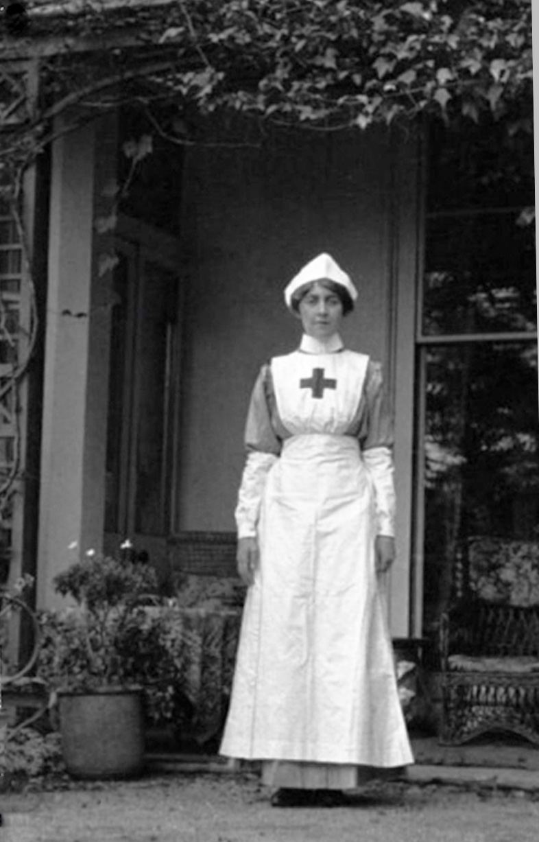 The verandah at the back of Ashfield, Torquay, circa 1915